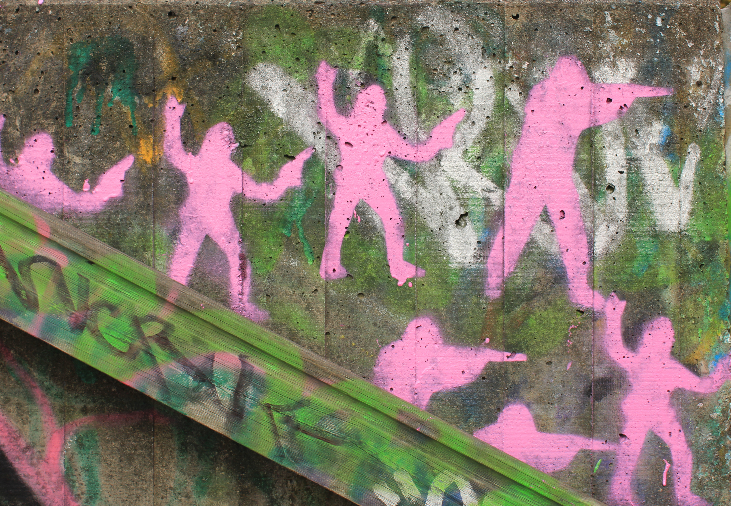 Pink Army is a international street art projekt, that is against war.